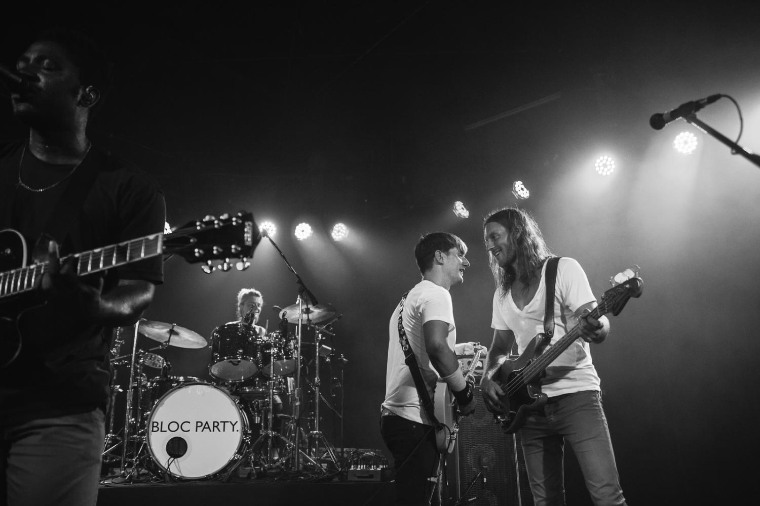 Bloc Party's current line-up.